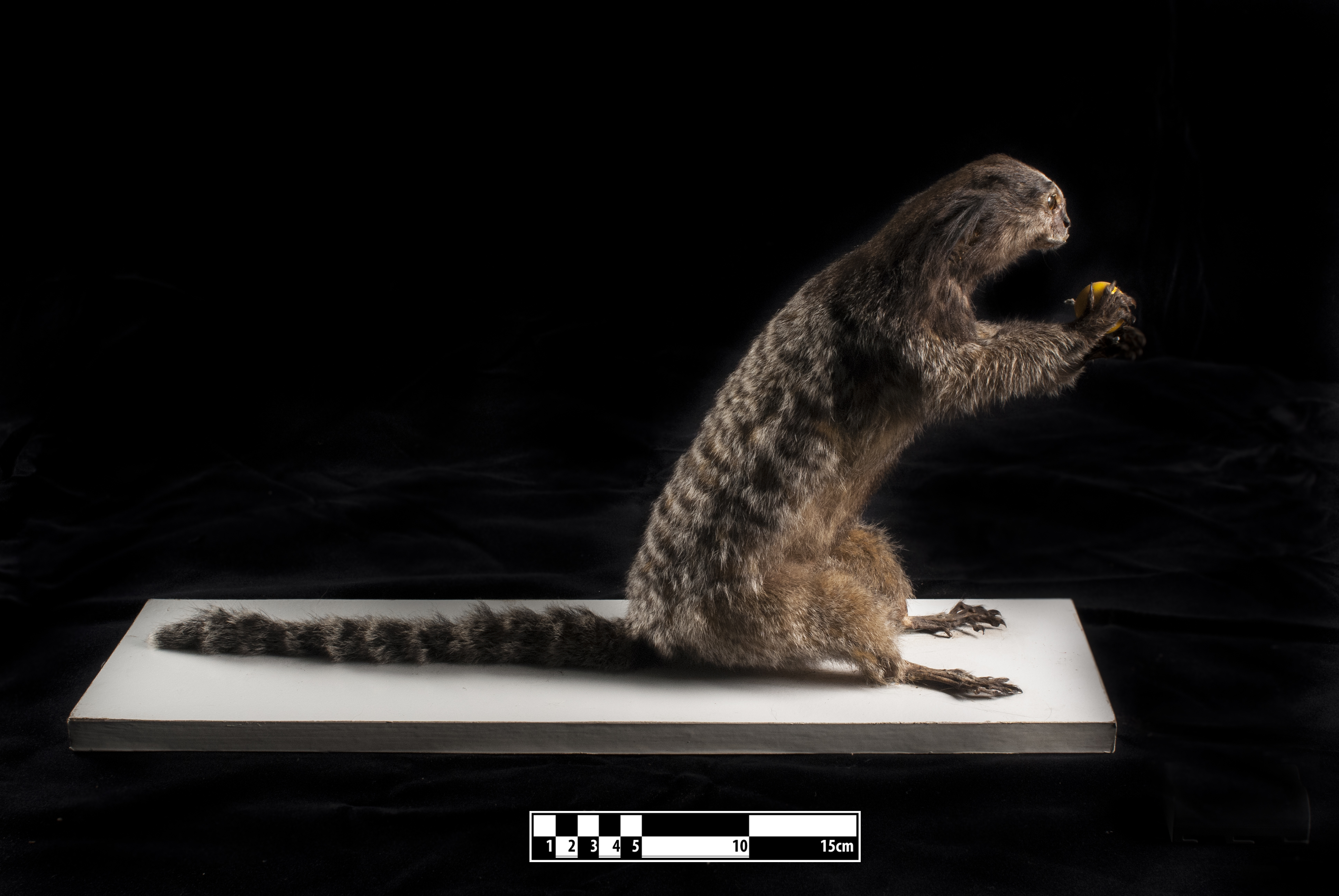 Black-tufted marmoset (Callithrix penicillata). Taxidermy specimen of a marmoset on display at the Museum of Veterinary Anatomy FMVZ USP. This file was published as the result of a partnership between the Museum of Veterinary Anatomy FMVZ USP, the RIDC NeuroMat and the Wikimedia Community User Group Brasil. This GLAM project is reported. Photography: Museum of Veterinary Anatomy FMVZ USP. Author: Wagner Souza e Silva.